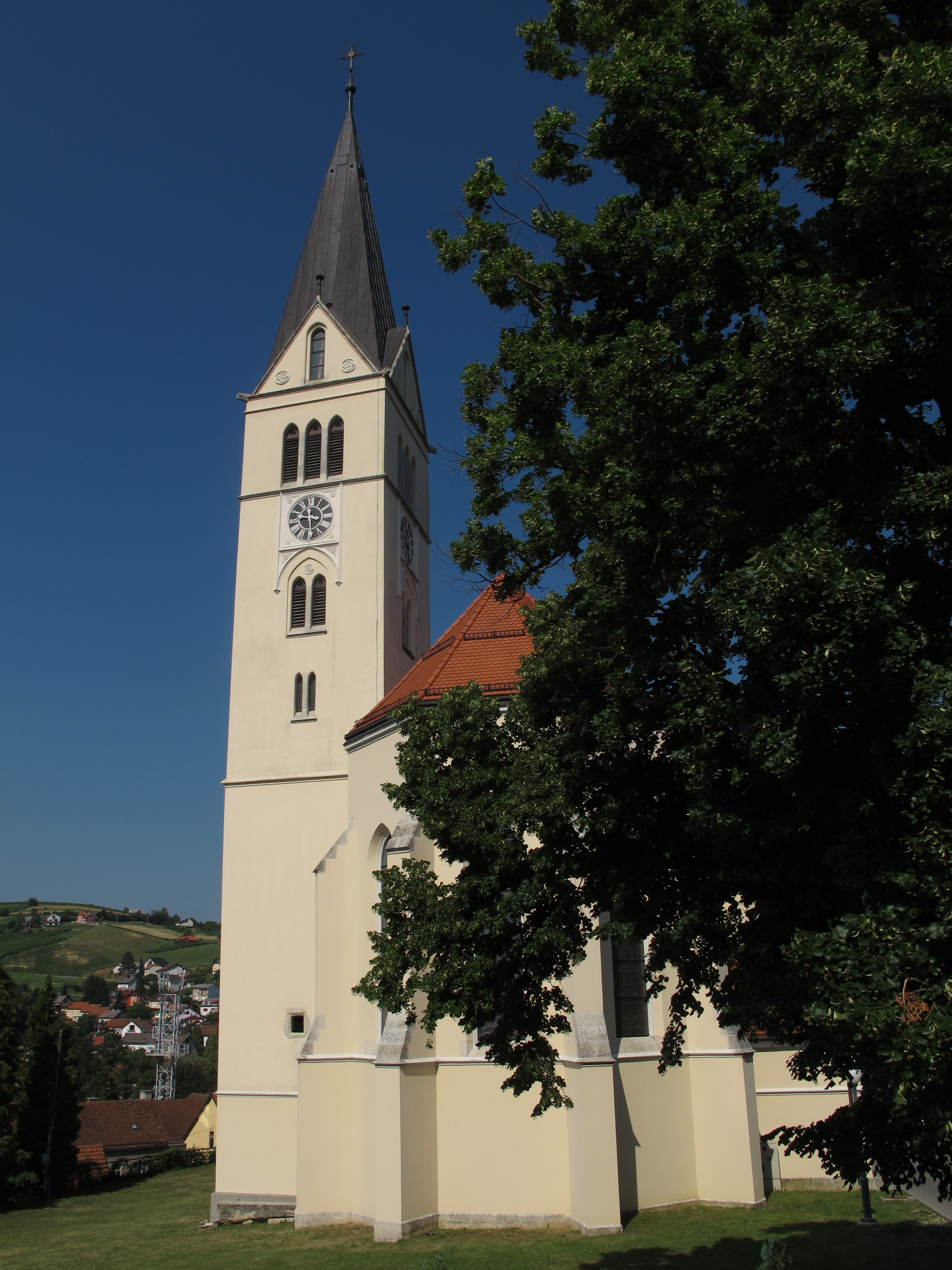 St Nicholas’ Parish Church